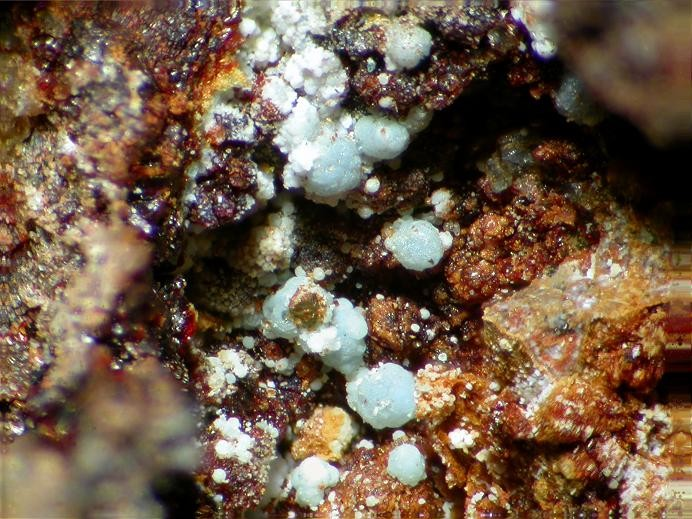 Arsenocrandallite Locality: Dolores prospect, Pastrana, Mazarrón-Águilas, Murcia, Spain (Locality at ) Light blue Arsenocrandallite balls. Field of view 4 mm. Depth of field is achieved with CombineZM. Specimen and photo Leon Hupperichs.